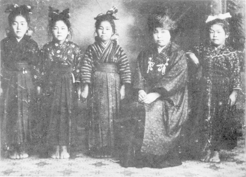 Sumiyoshi elementary school girls of 2nd grade and their teacher in charge.